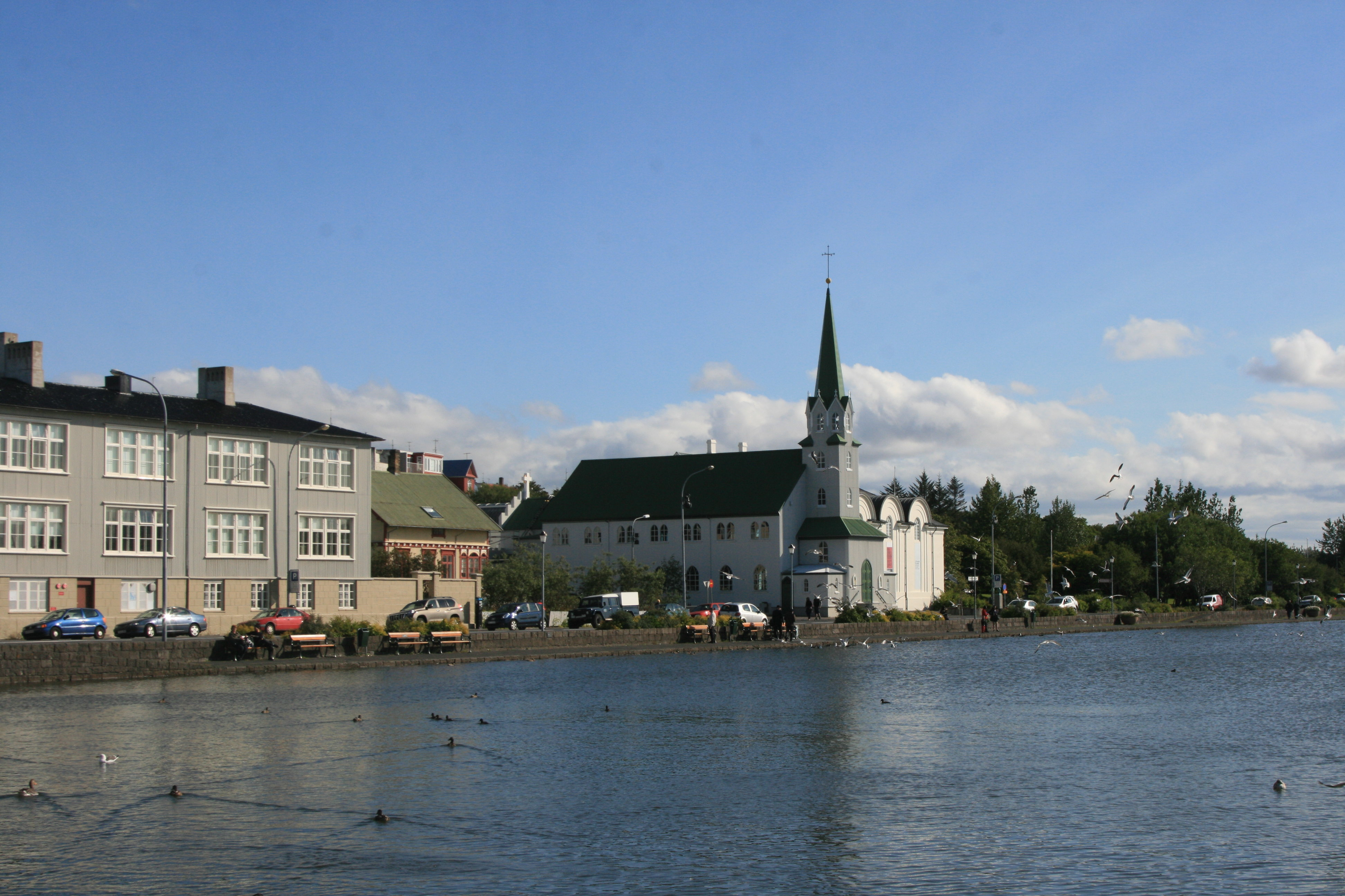 Downtown, 101 Reykjavík, Iceland